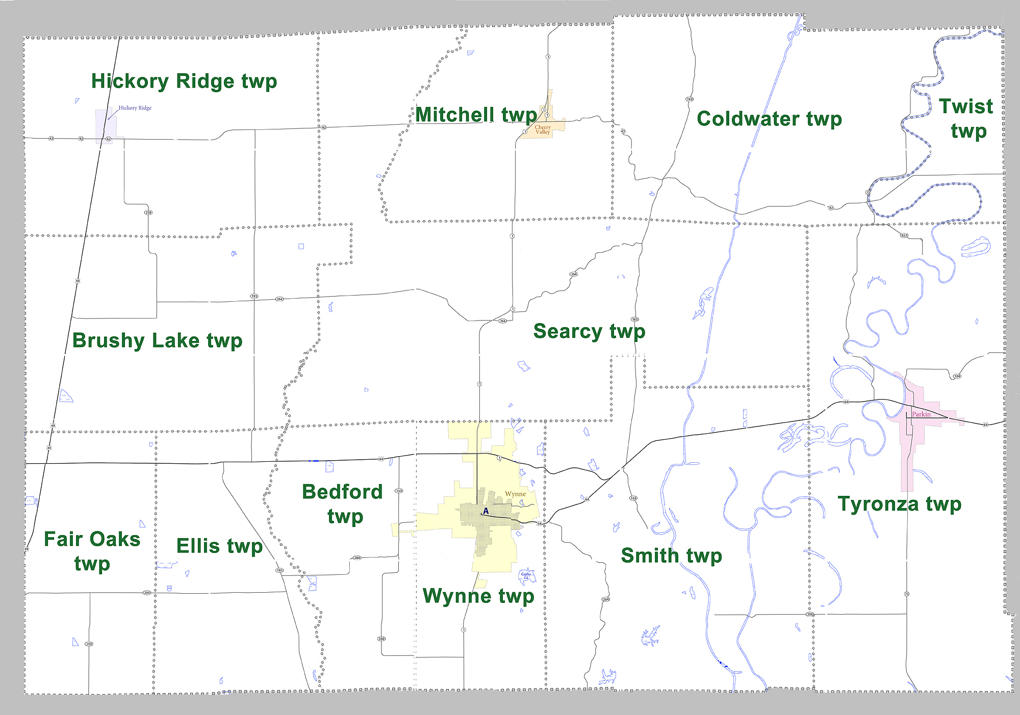 Large map showing townships in Cross County, Arkansas. Modified from US census map (for 2010 census) for Cross County, Arkansas